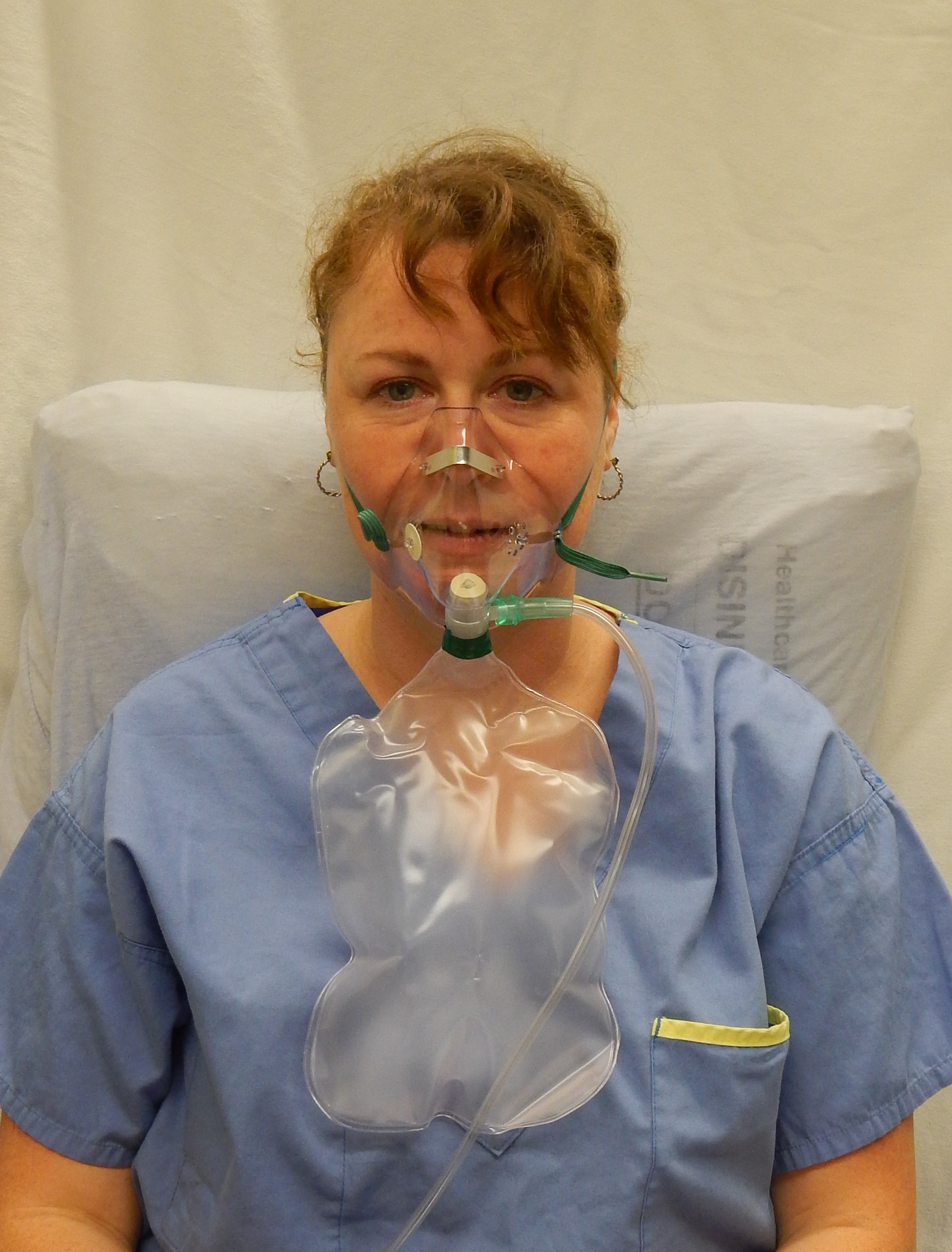 A non rebreather